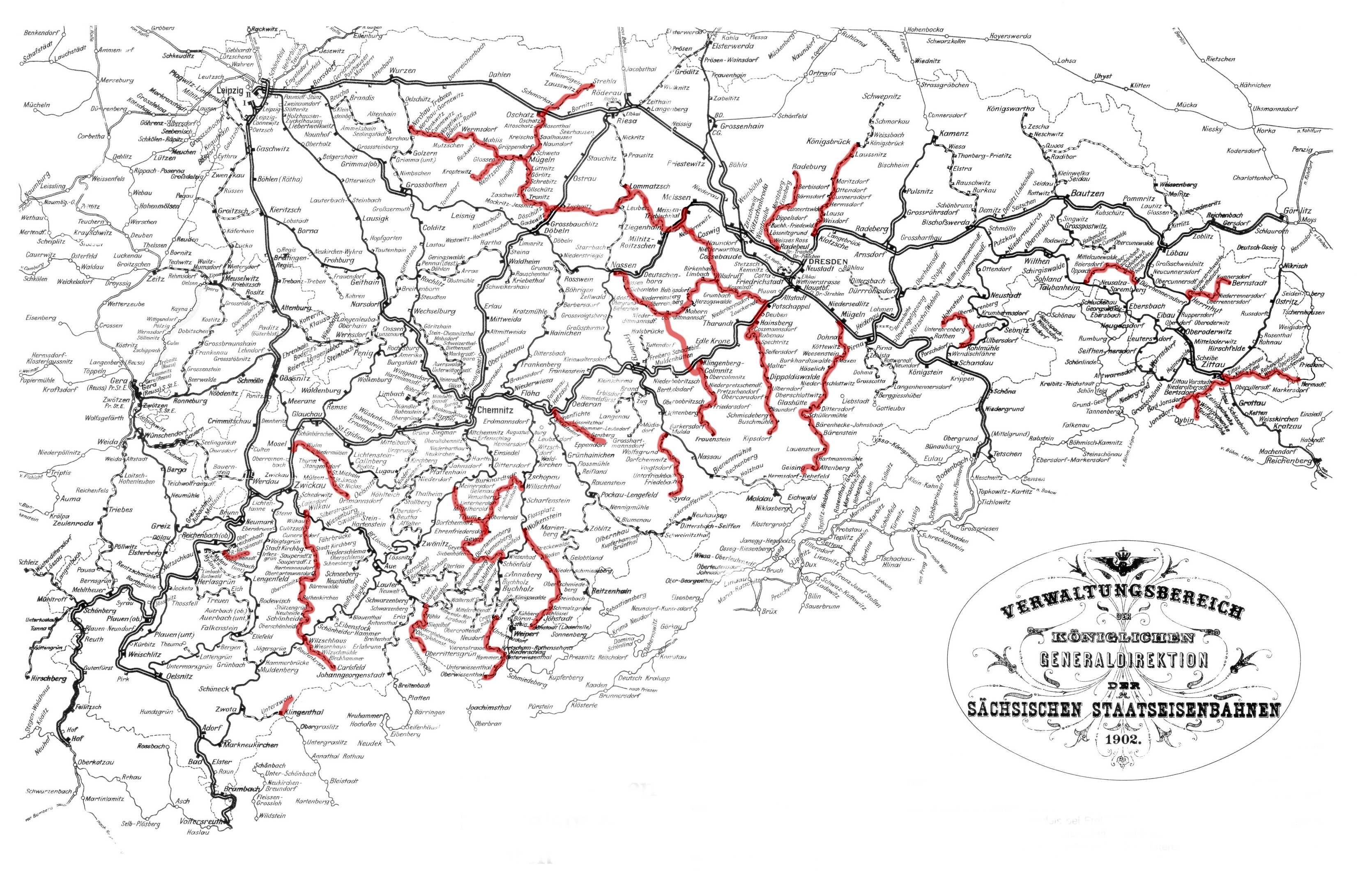 Railway network of the Royal Saxon State Railways of 1902, narrow gauge tracks are marked in red